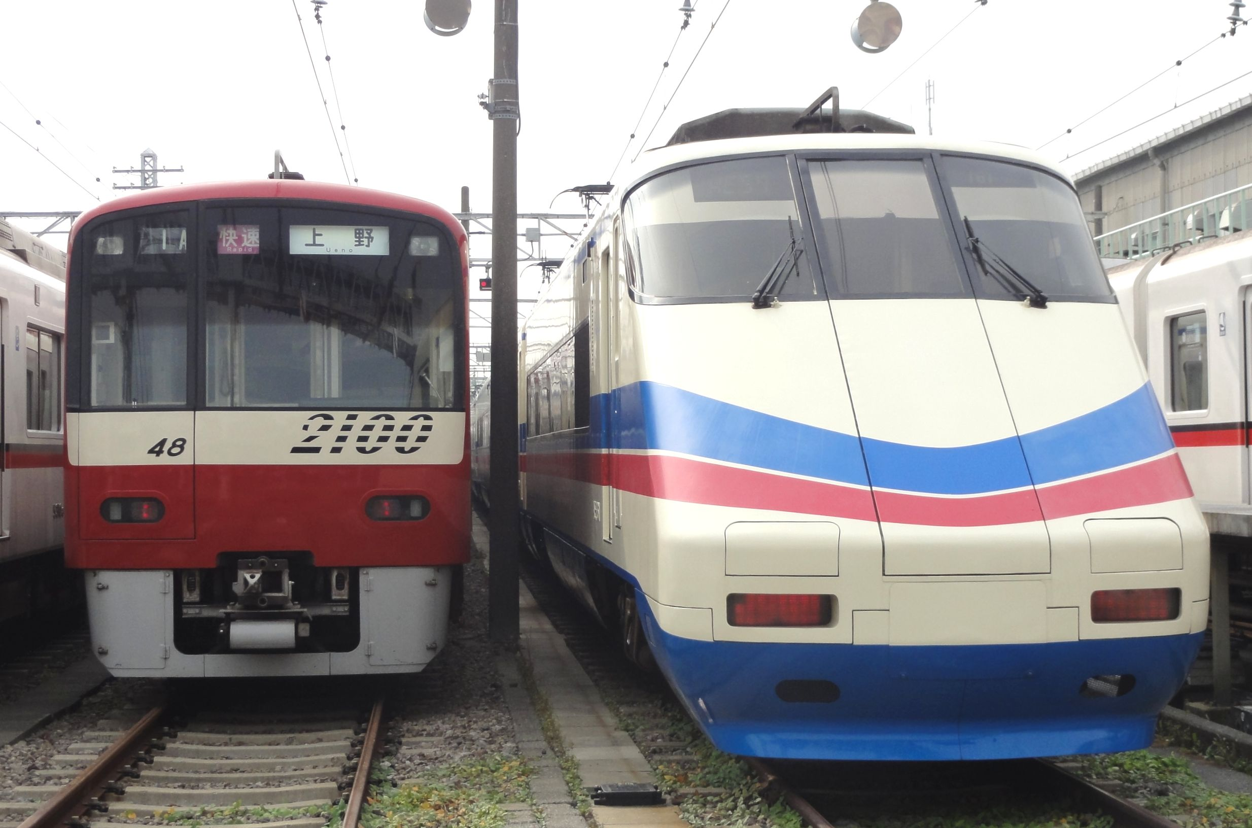 Keikyu 2100 series and Keisei AE100 series EMUs at the Toei Magome Depot open day